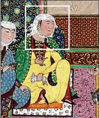 Painting of Sindukht in The Shahnama of Shah Tahmasp